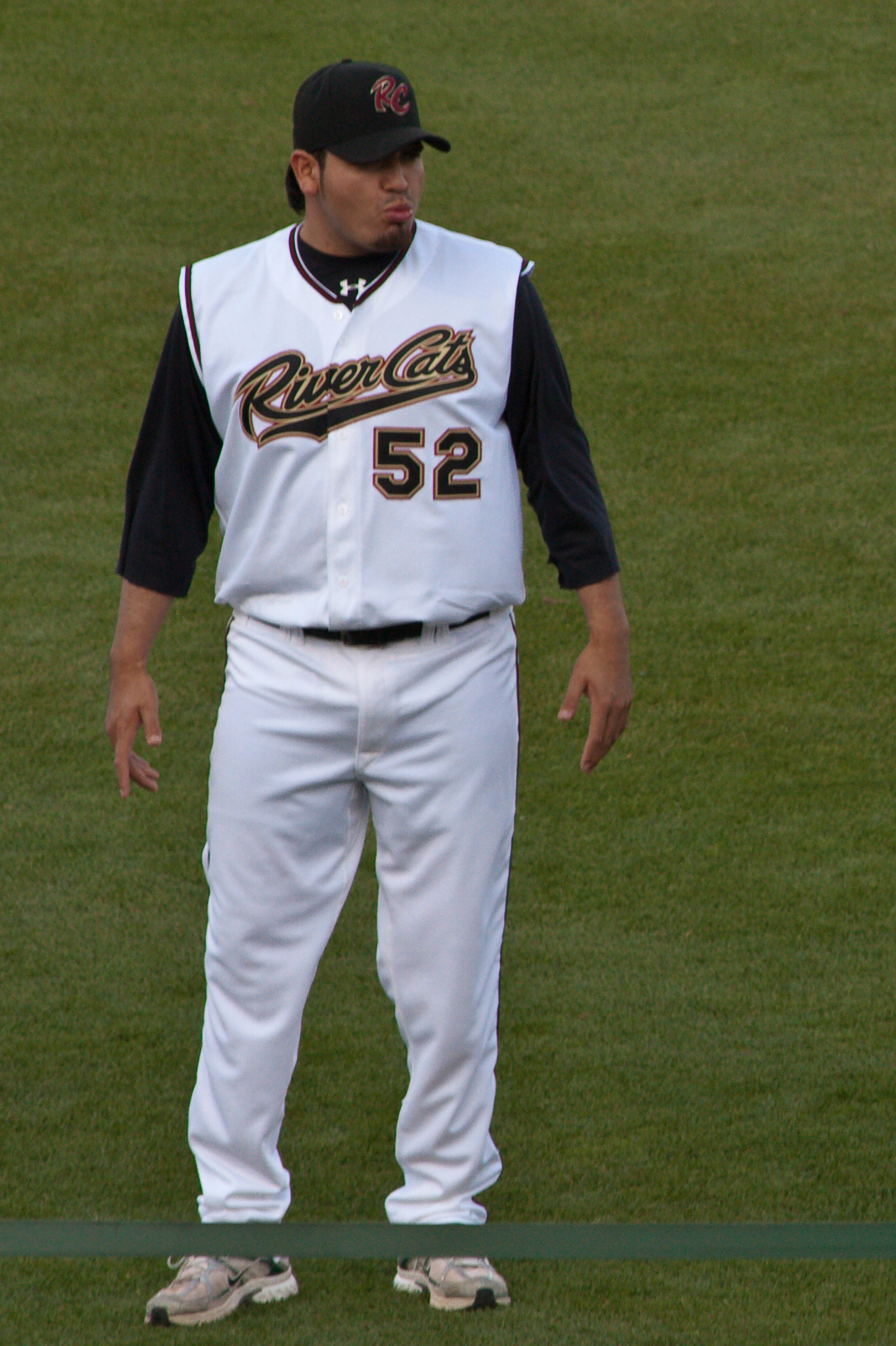 Description Édgar González DateApril 25, 2009SourceOwn workAuthorFabrictramp / talk to mePermission(Reusing this file) I own the copyright 17:51, 30 April 2009 . . Fabrictramp . . 1,449×2,176 (2.89 MB) Édgar González